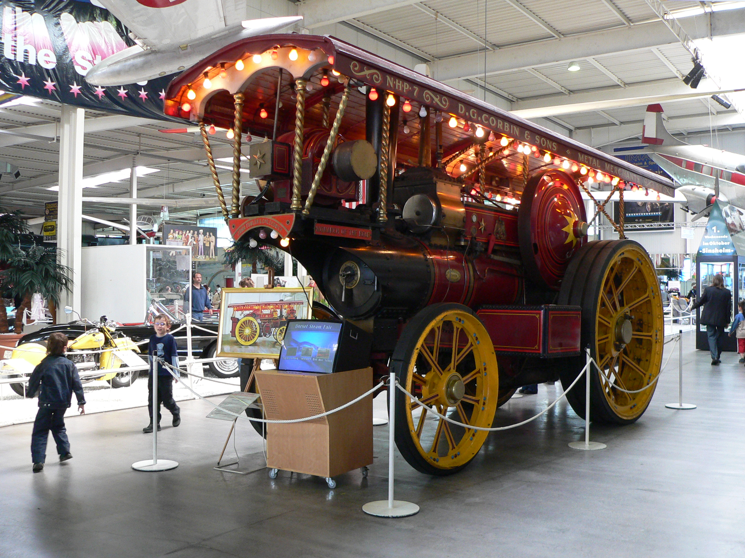 "Monarch of the Road" built by John Fowler & Co of Leeds, on display in the museum of Sinsheim, Germany